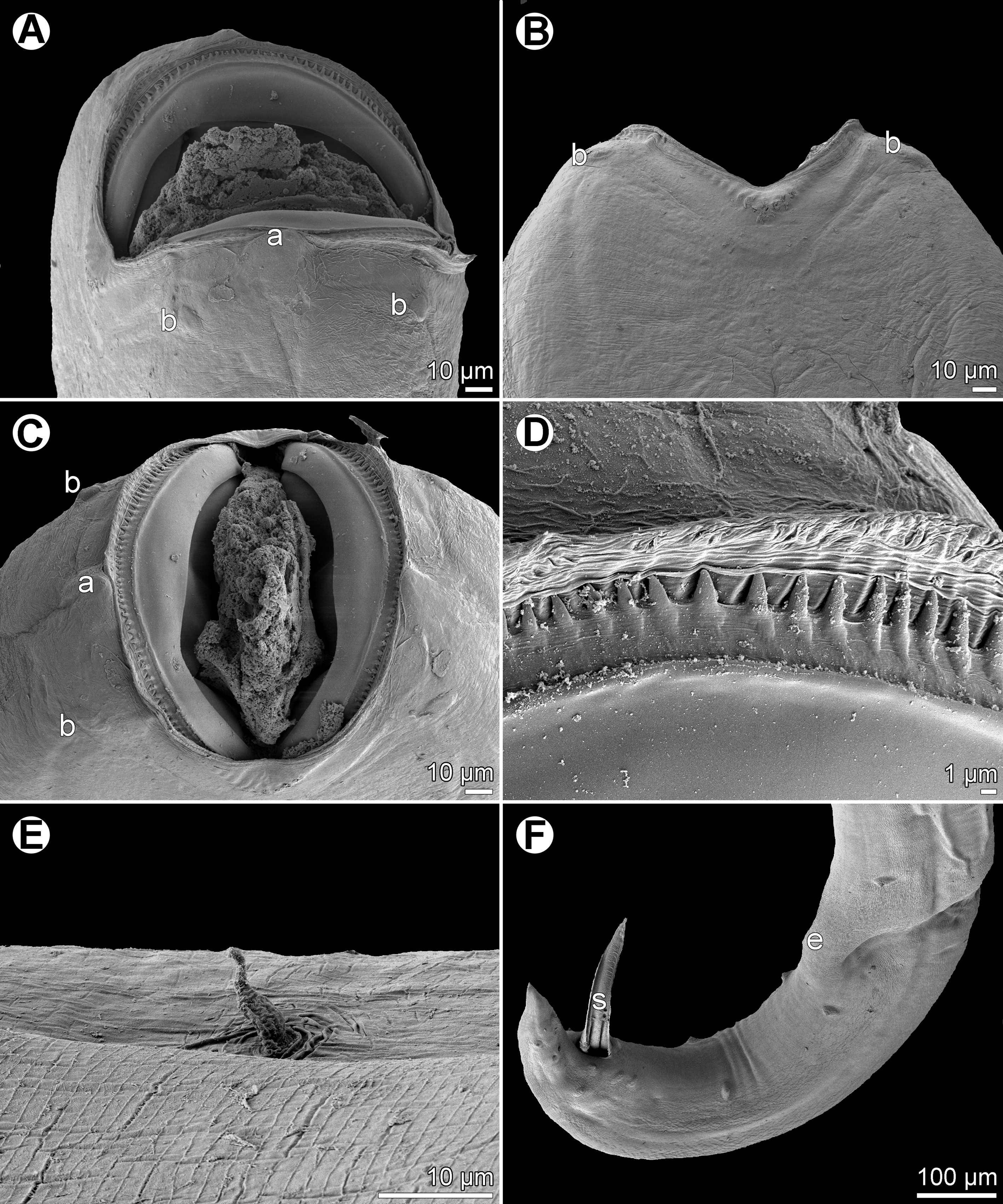 Figure 5 from paper Cucullanus gymnothoracis Moravec & Justine, 2018, scanning electron micrographs of male. (A, B) Cephalic end, lateral and dorsoventral views, respectively; (C) same, apical view; (D) cephalic teeth; (E) deirid; (F) posterior end of body, lateral view. (a) amphid; (b) cephalic double papilla; (e) ventral sucker; (s) spicule.